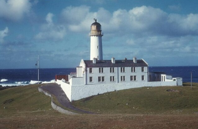 Fair Isle South light Note the german bomb crater on right of picture, it was the third of a stick of four, the fourth hit the lighthouse accommodation killing one of the keepers wife. Still visible today.